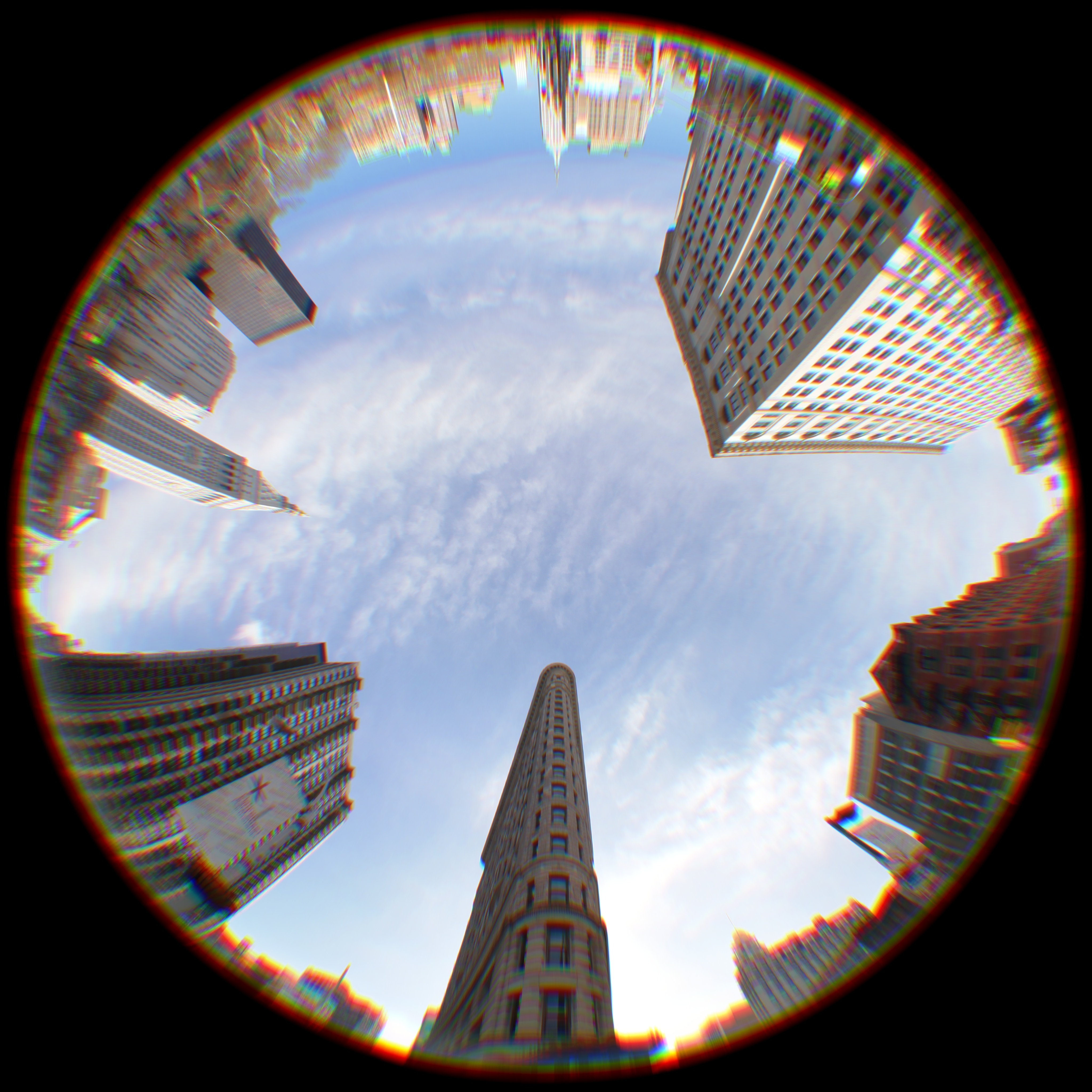 How a fish in a pail would see the Flatiron Building - with chromatic abberation.